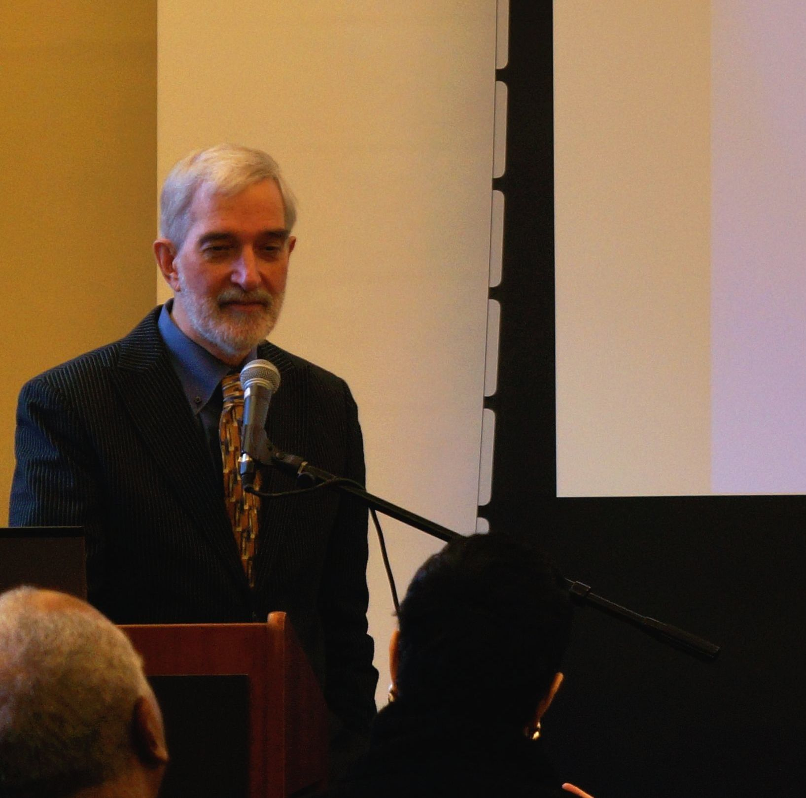 Center for Inquiry President and CEO, Ronald A. Lindsay, discussed his book, The Necessity of Secularism, at a CFI DC Voices of Reason lecture in Washington, DC on December 14, 2014.